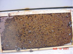 Frame of honeycomb with pollen Image copyleft: Image taken by me, released under GFDL Pollinator 03:33, Nov 9, 2004 (UTC)